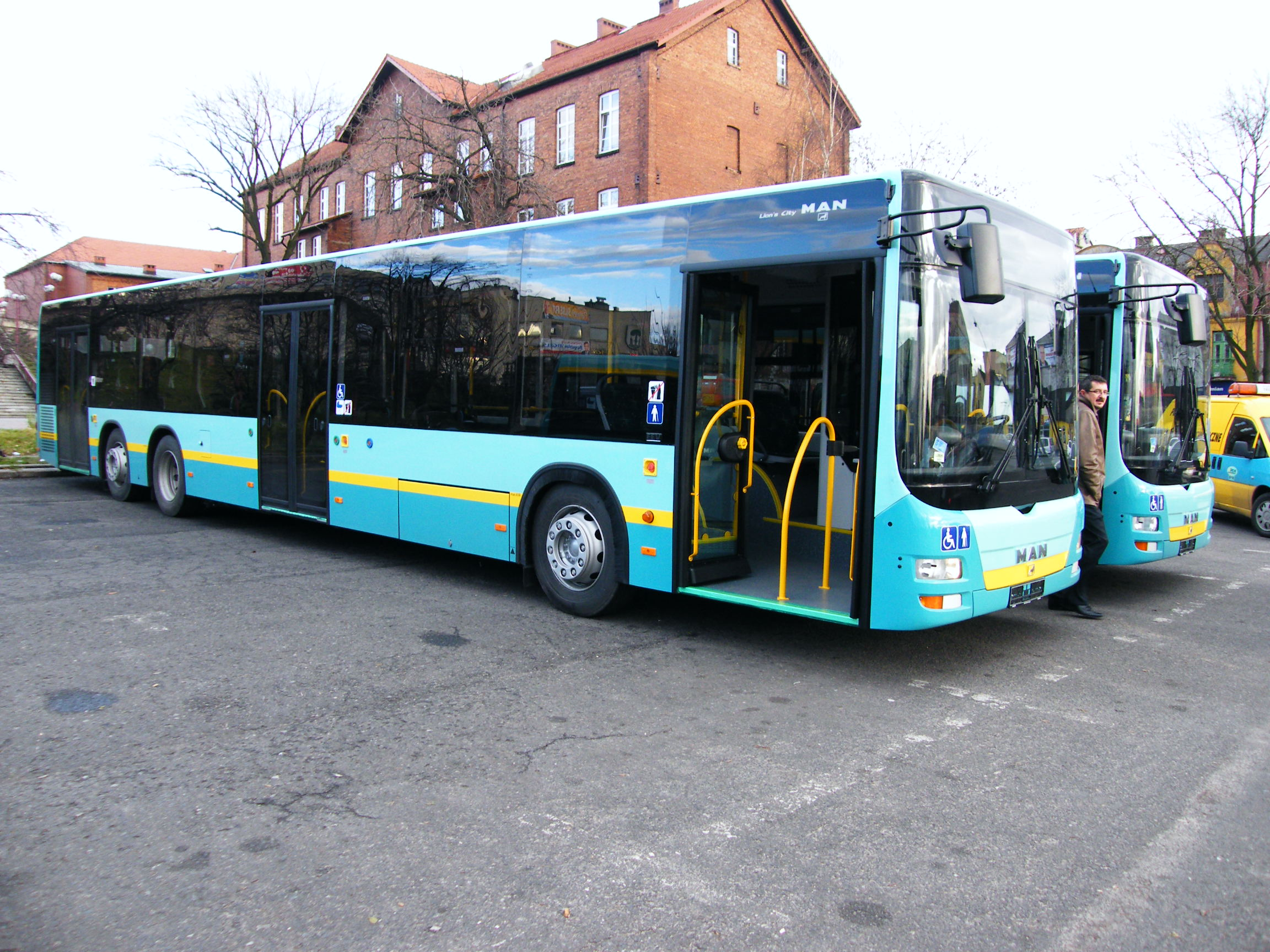 Two MAN NL323-15 Lion's City LL buses in Jaworzno, Poland. Built 2010, PKM Jaworzno operator.